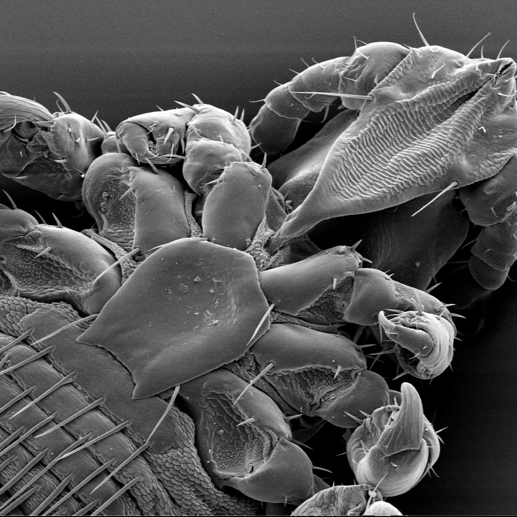 Neohaematopinus sciuri, female, head and thorax, ventral view, 200x